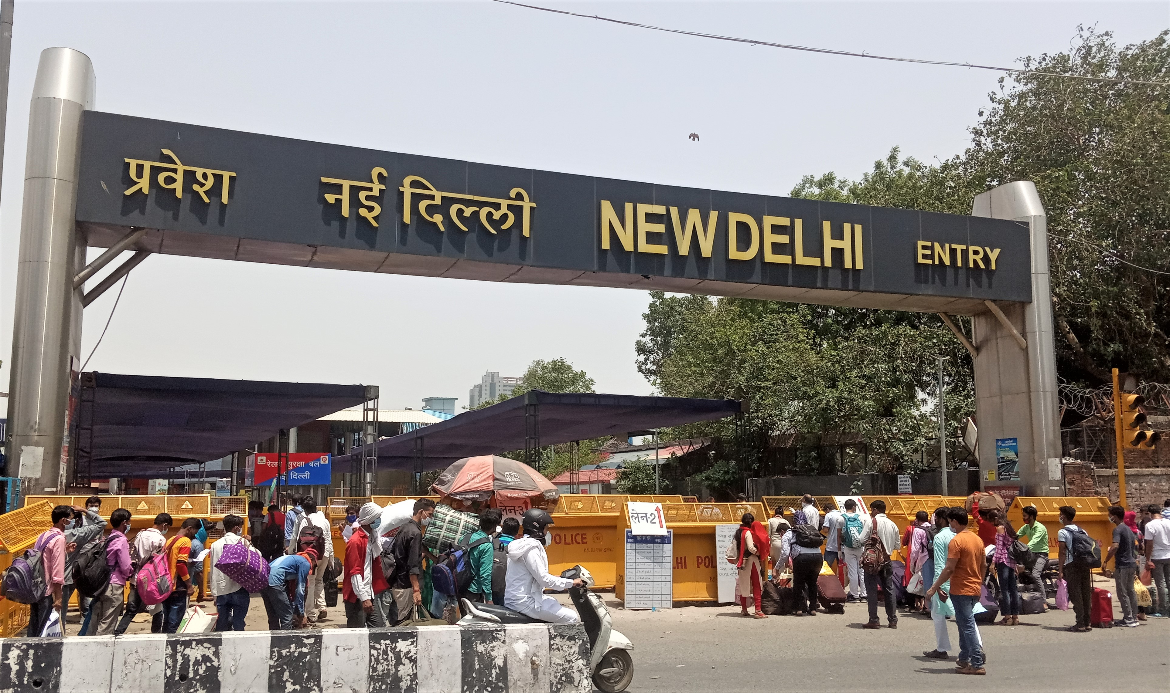 Stranded people rushing to rail station to catch their train during fourth phase of the lockdown because of COVID-19 pandemic in Delhi